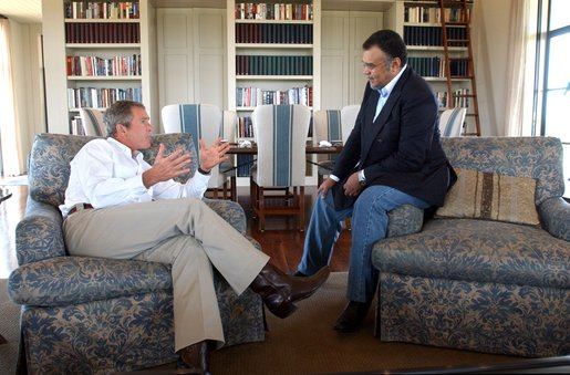 President George W. Bush meets with Saudi Arabian Ambassador Prince Bandar bin Sultan at the Bush Ranch in Crawford, Texas